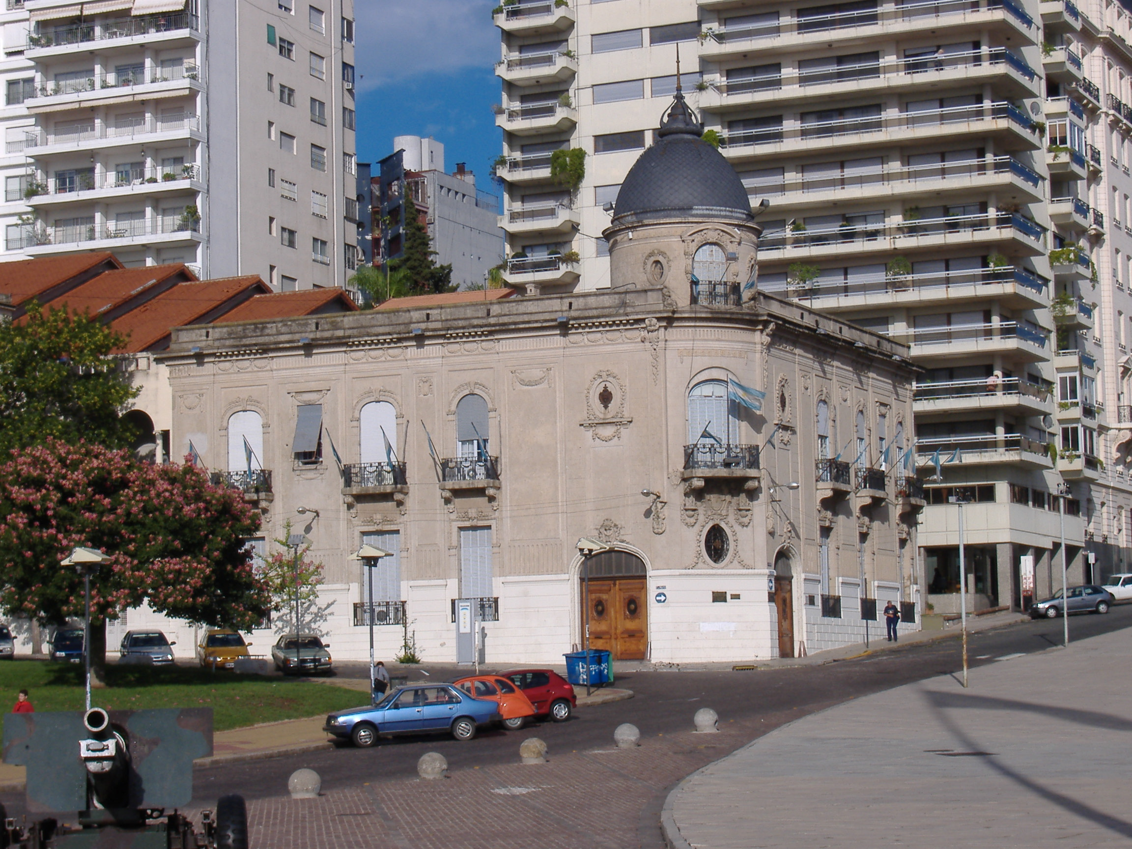 Palacio Vassallo ("Vassallo Palace"), the seat of the municipal legislative branch (Concejo Deliberante, Deliberative Council) in Rosario, Argentina. I, Pablo D. Flores, took this picture on 1 March 2006.